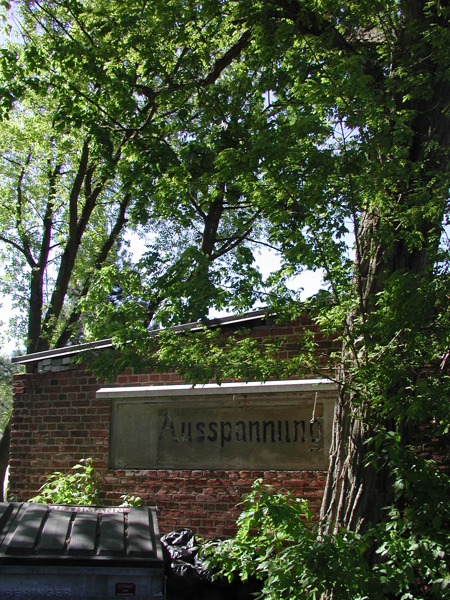 Leftover of the former stagecoach station near the old Inn "Seekrug" in Wandlitz, Brandenburg, Germany.